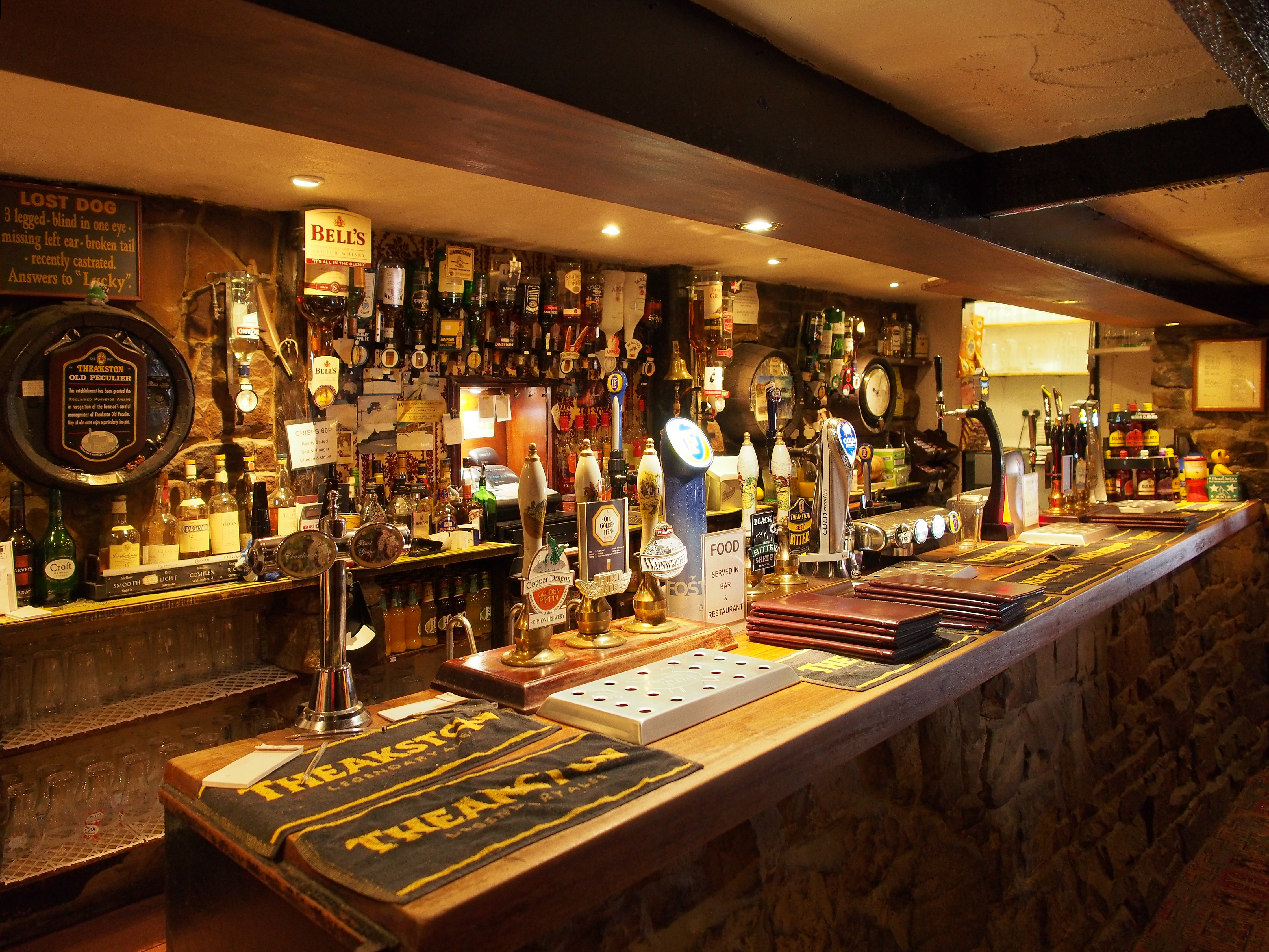 Bar of Lion Inn, Blakey Ridge, North York Moors